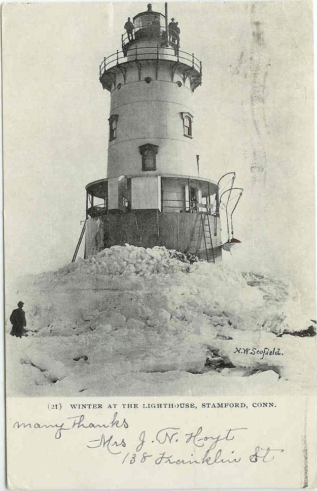 Postcard picture of Stamford Harbor Ledge Light, 1906 postmark. Picture shows a winter scene with snow and some people. Store Web page states: "Winter at the lighthouse. Postmarked Stamford CONN. Nov. 8th, 1906. nice Flag cancel cancellation postmark."